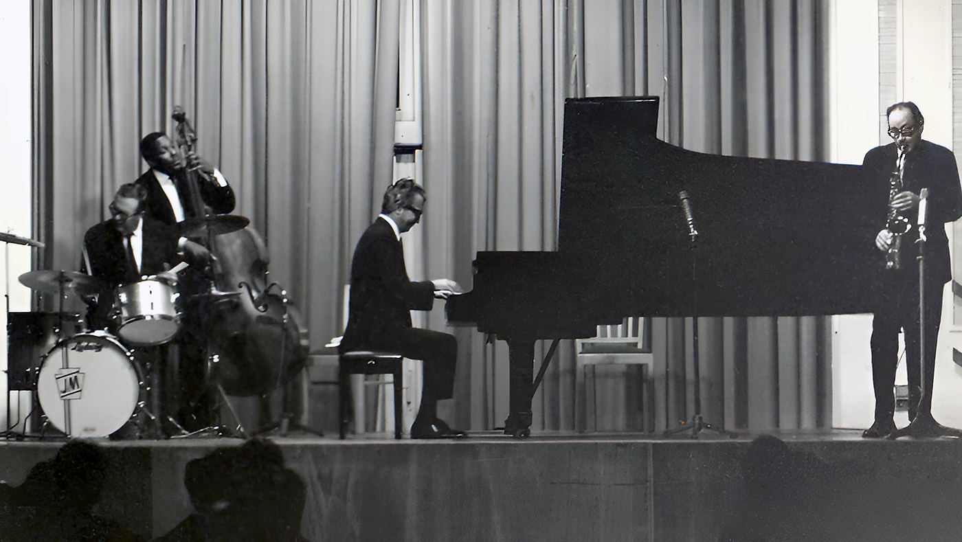 Dave Brubeck Quartet at Congress Hall Frankfurt/Main (1967). From left to right: Joe Morello, Eugene Wright, Dave Brubeck and Paul Desmond.